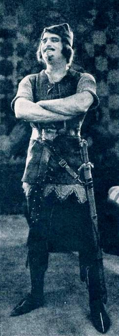 Still from the American film Robin Hood (1922) with Douglas Fairbanks, on page 59 of the September 1922 Film Fun.